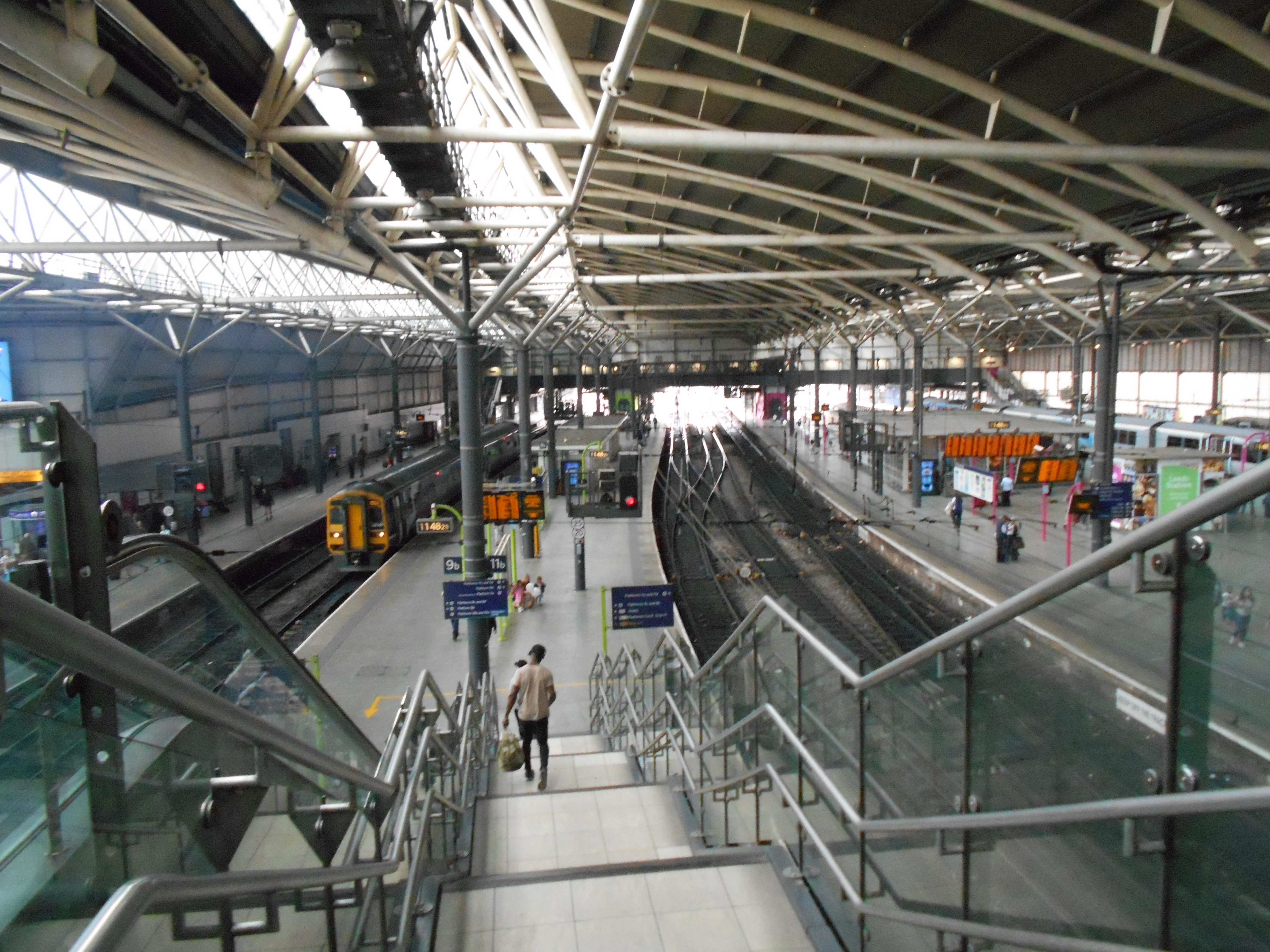 Leeds railway station interior, Aug 17